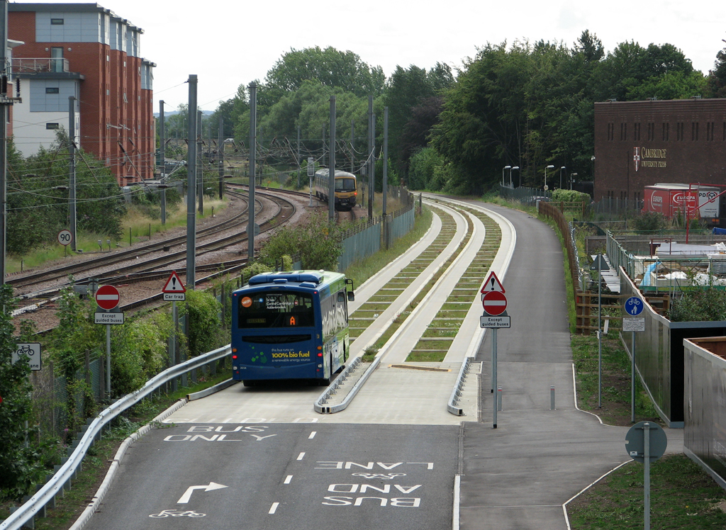 Joining the guided busway, Data from Geograph: Description: Having used conventional roads through the city and south from the railway station under Hills Road Bridge (from which this picture was taken) a bus joins the concrete Brio track for the rest of its journey to Trumpington. A path... more ICBM: 52.189318639268, 0.13393690439947 Location: (about 2 km from) near to Cambridge, Cambridgeshire, Great Britain.